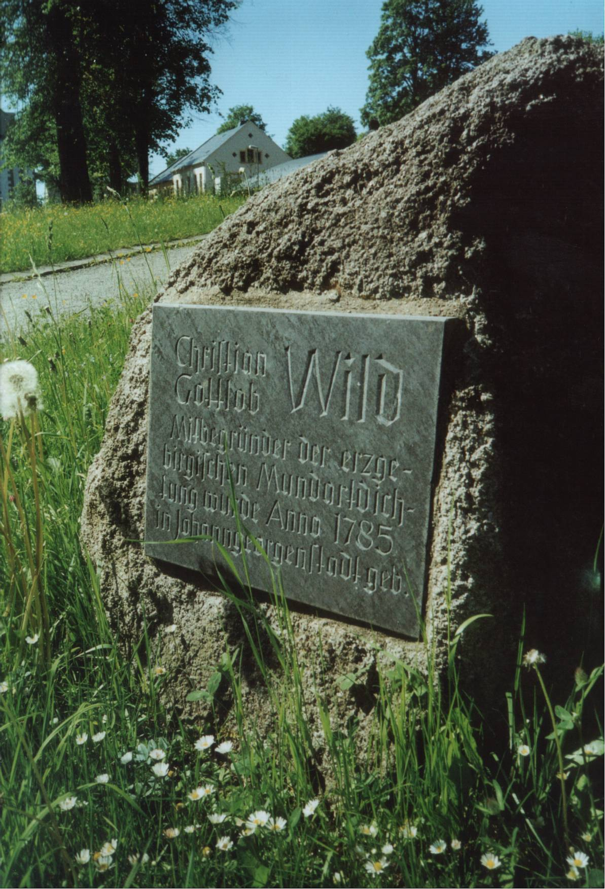 Christian Gottlob Wild memorial tablet, Johanngeorgenstadt, Saxony, Germany. «Christian Gottlob Wild, co-founder of the dialect poetry of the Ore Mountains was born 1785 A.D. in Johanngeorgenstadt.»